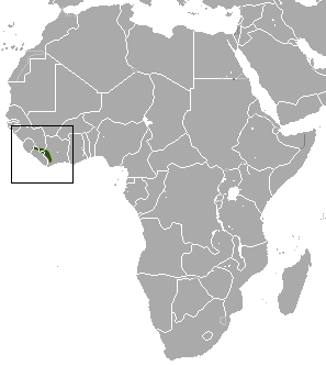 Nimba Shrew (Crocidura nimbae) range